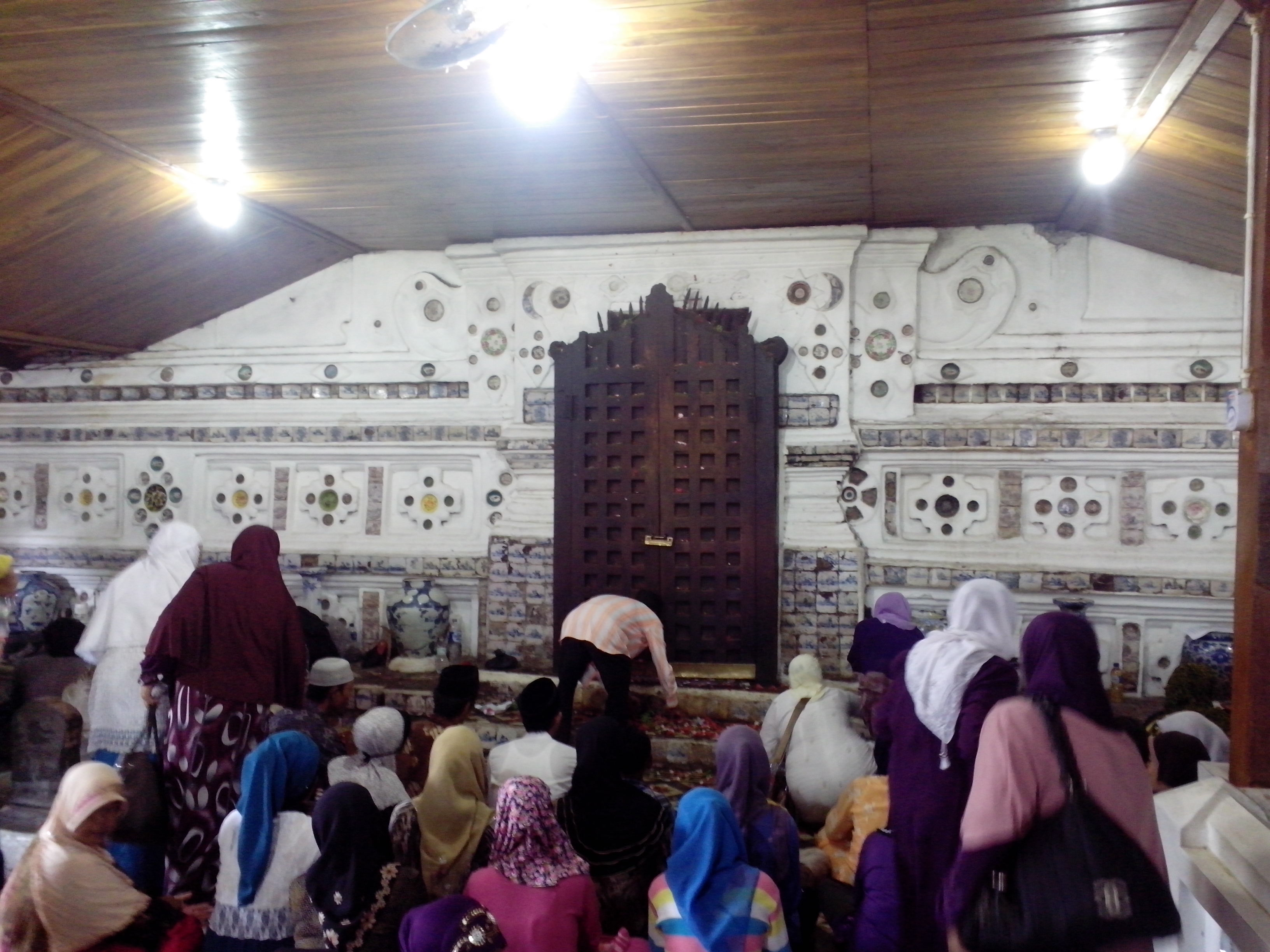 Pilgrims praying before the sanctuary of Sunan Gunung Jati at Sunan Gunung Jati cemetery site, Cirebon.